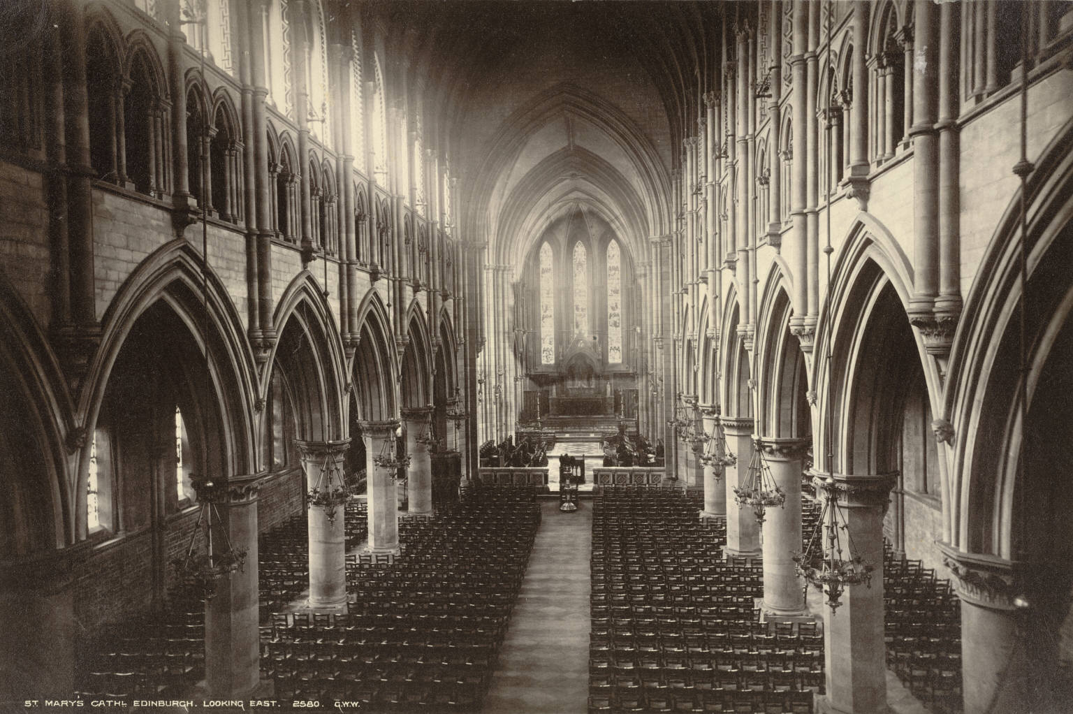 Collection: A. D. White Architectural Photographs, Cornell University Library Accession Number: 15/5/3090.01244 Title: Edinburgh. Saint Mary's Episcopal Cathedral, looking East Photographer: George Washington Wilson (Scottish, 1823-1893) Architect: Sir George Gilbert Scott (English, 1811-1878) Building Date: 1874-1879 Photograph date: ca. 1865-ca. 1885 Location: Europe: United Kingdom; Edinburgh Materials: albumen print Image: 7 1/2 x 11 1/2 in.; 19.05 x 29.21 cm Style: Gothic Revival Provenance: Gift of Andrew Dickson White Persistent URI: There are no known copyright restrictions on this image. The digital file is owned by the Cornell University Library which is making it freely available with the request that, when possible, the Library be credited as its source. We had some help with the geocoding from Web Services by Yahoo! This image is from the Cornell University Library's The Commons Flickr stream. The Library has determined that there are no known copyright restrictions. This image was taken from Flickr's The Commons. The uploading organization may have various reasons for determining that no known copyright restrictions exist, such as: The copyright is in the public domain because it has expired; The copyright was injected into the public domain for other reasons, such as failure to adhere to required formalities or conditions; The institution owns the copyright but is not interested in exercising control; or The institution has legal rights sufficient to authorize others to use the work without restrictions. More information can be found at Please add additional copyright tags to this image if more specific information about copyright status can be determined. See Commons:Licensing for more information.No known copyright restrictionsNo restrictions